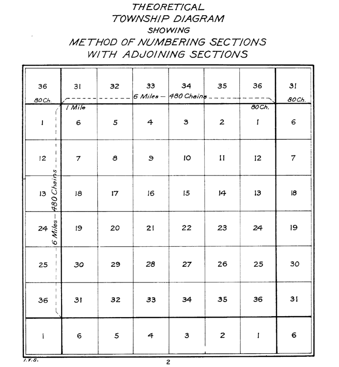 The image depicts a standard survey township with its 36 sections and the correponding sections from the surrounding survey townships.